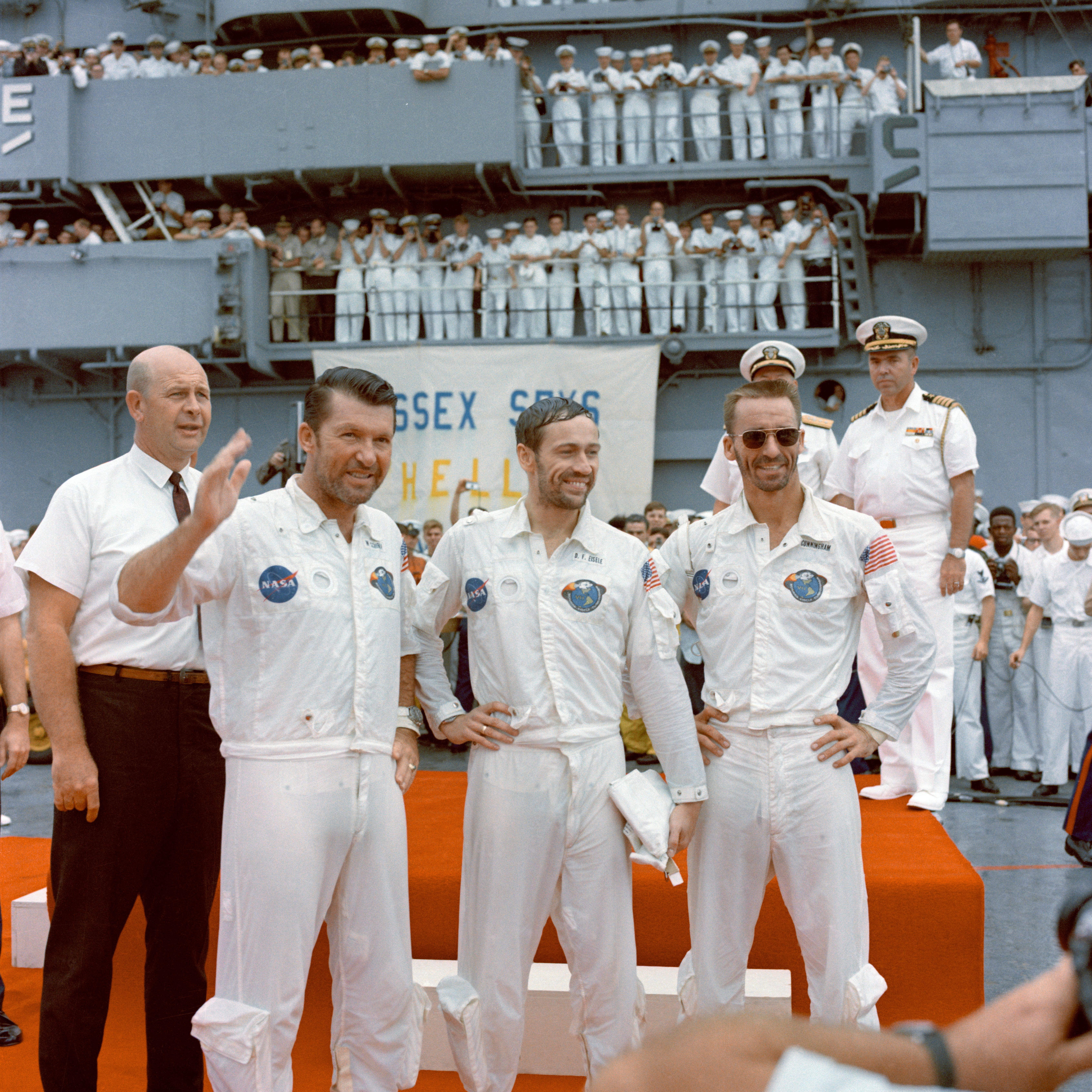 On 22 October 1968, the Apollo 7 crew is welcomed aboard the U.S. Navy aircraft carrier USS Essex (CVS-9), the prime recovery ship for the mission. This was the first Apollo splashdown and, therefore, the first three person 'landing' for NASA. Left to right, are astronauts Walter M. Schirra Jr., commander; Donn F. Eisele, command module pilot; and, Walter Cunningham, lunar module pilot. In left background is Dr. Donald E. Stullken, NASA Recovery Team Leader from the Manned Spacecraft Center's Landing and Recovery Division.